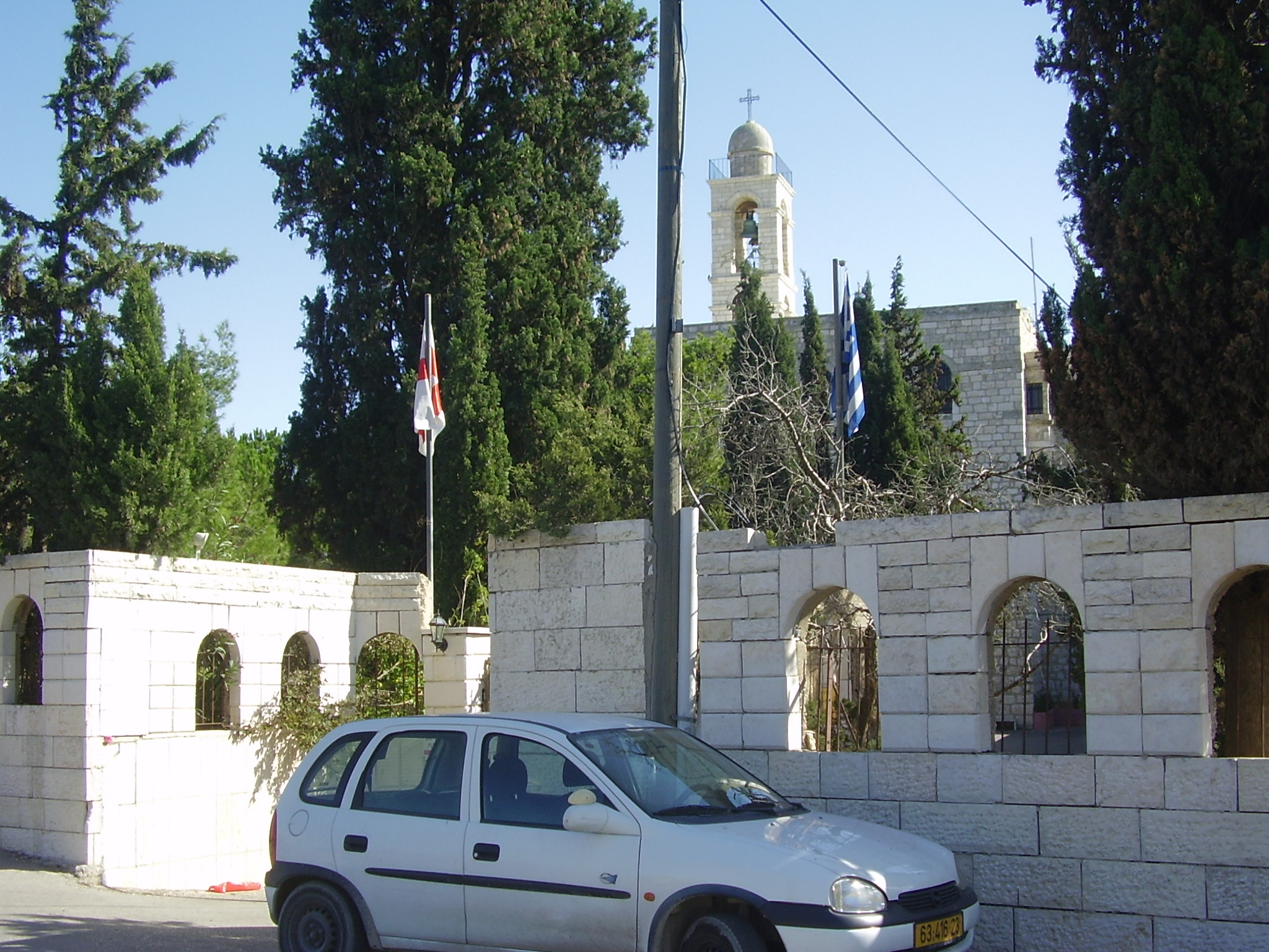 mar elias monastery near ramat rachel